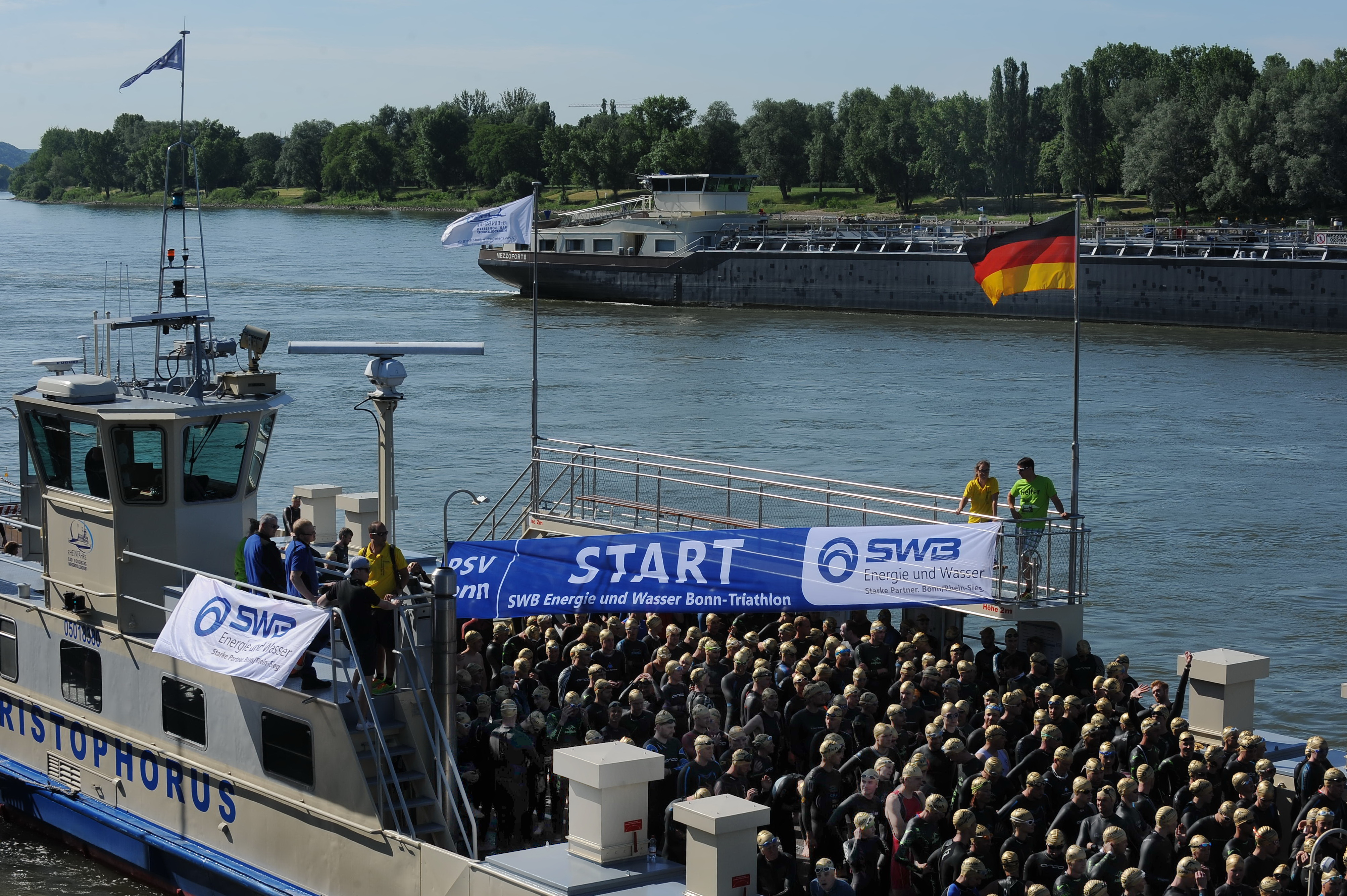 Triathletes preparing themselves for the start from a ferry boat in the river Rhine at Bonn Triathlon 2015